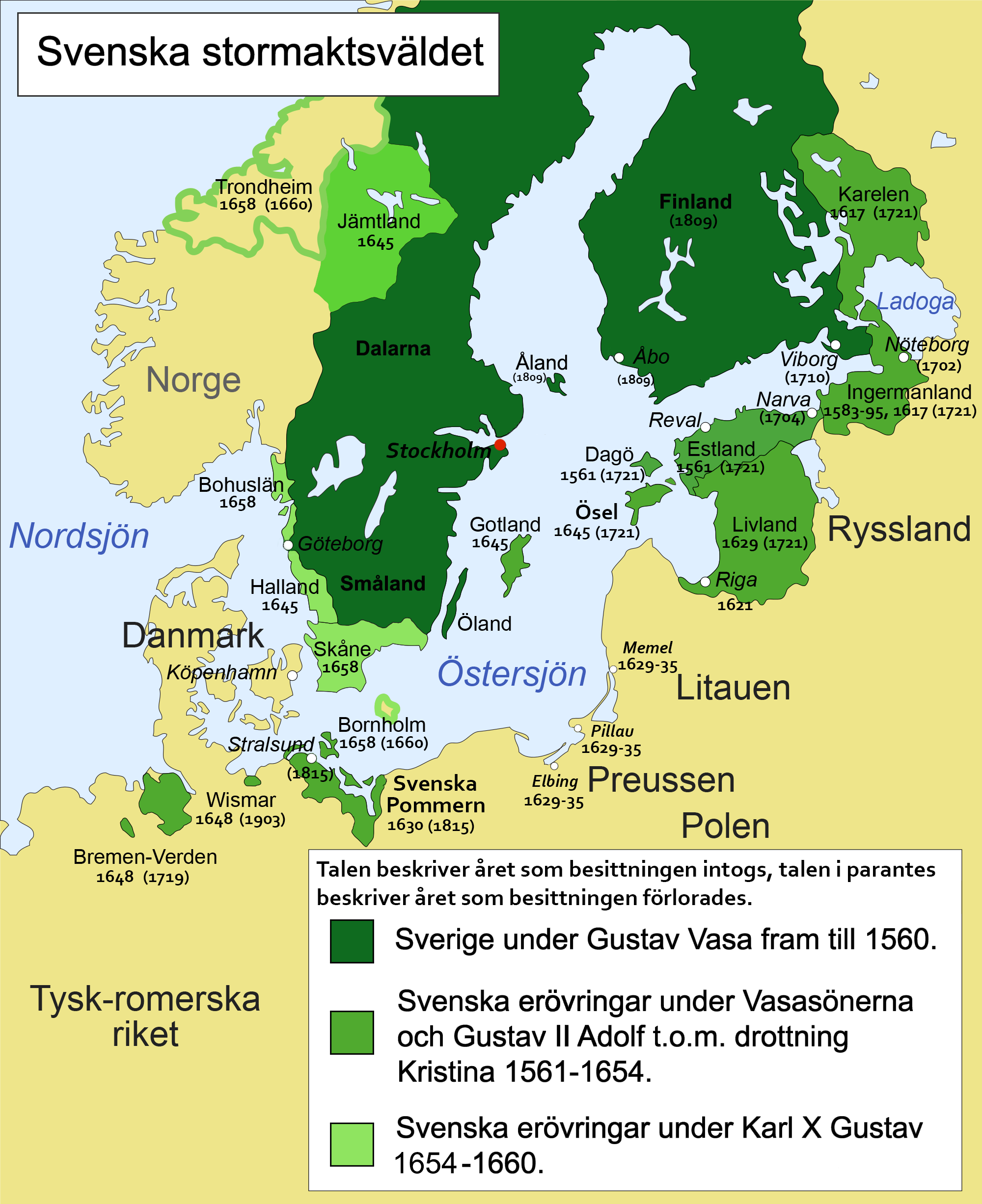 Map showing the development of the Swedish Empire in Early Modern Europe (1560-1903).